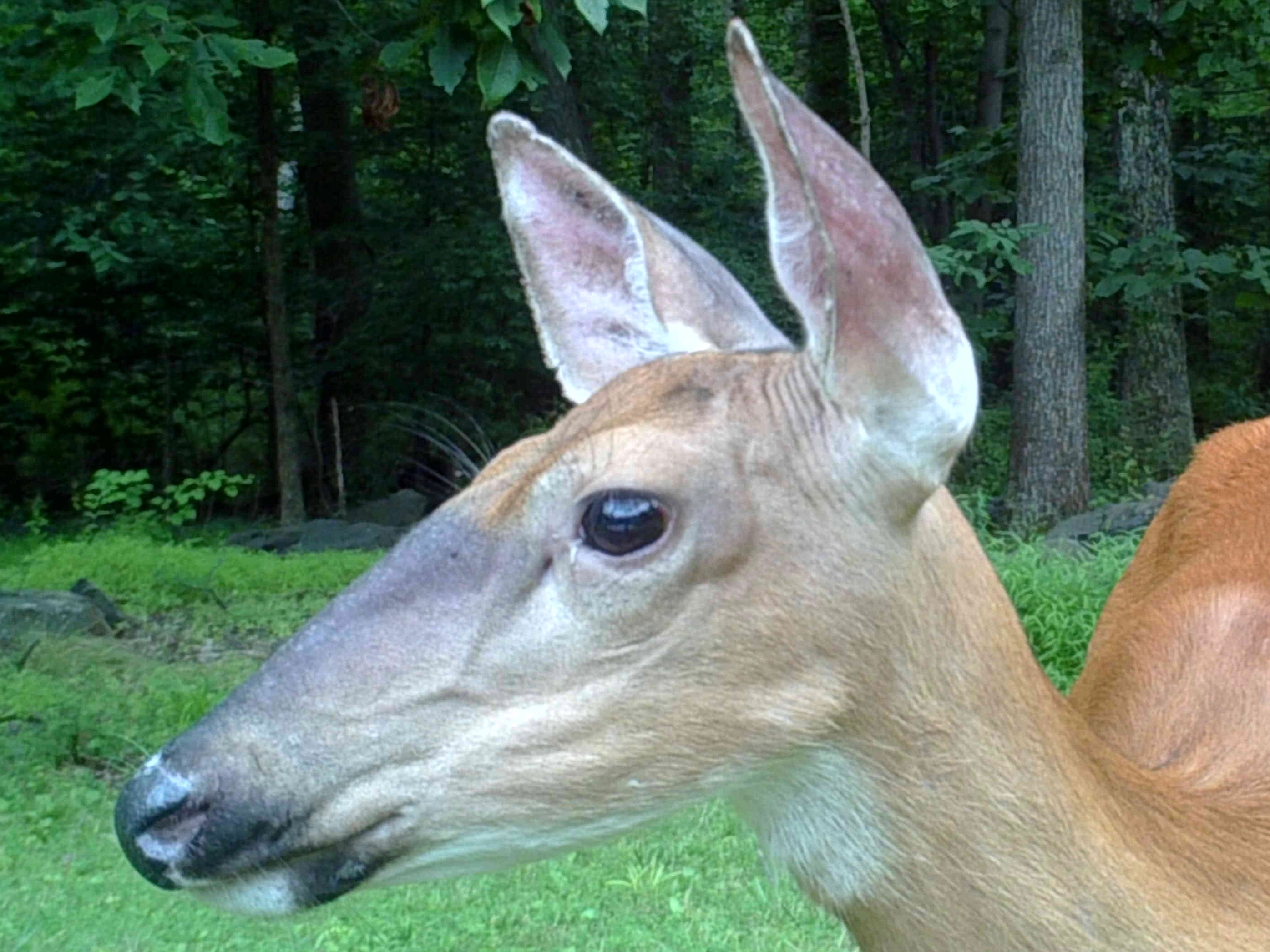 A wildlife camera shot of a white-tailed deer doe up close. The female appears to be looking to her right, perhaps to see another deer or to look for danger. The cropped metadata from the camera says that the temperature was 86° Fahrenheit (30° C), and air pressure was 15.717 PSI.